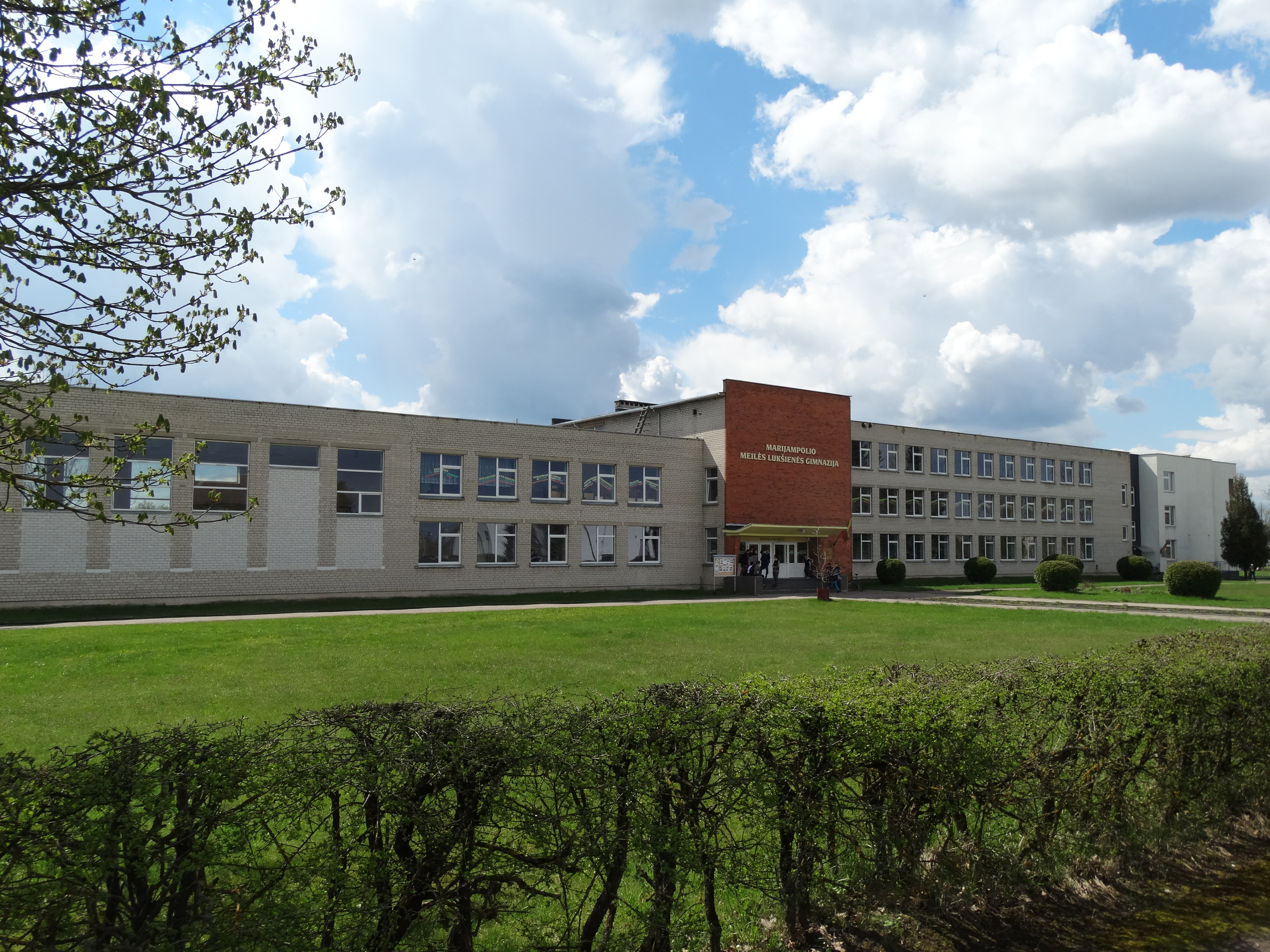 M. Lukšienė Gymnasium, Marijampolis, Vilnius District, Lithuania